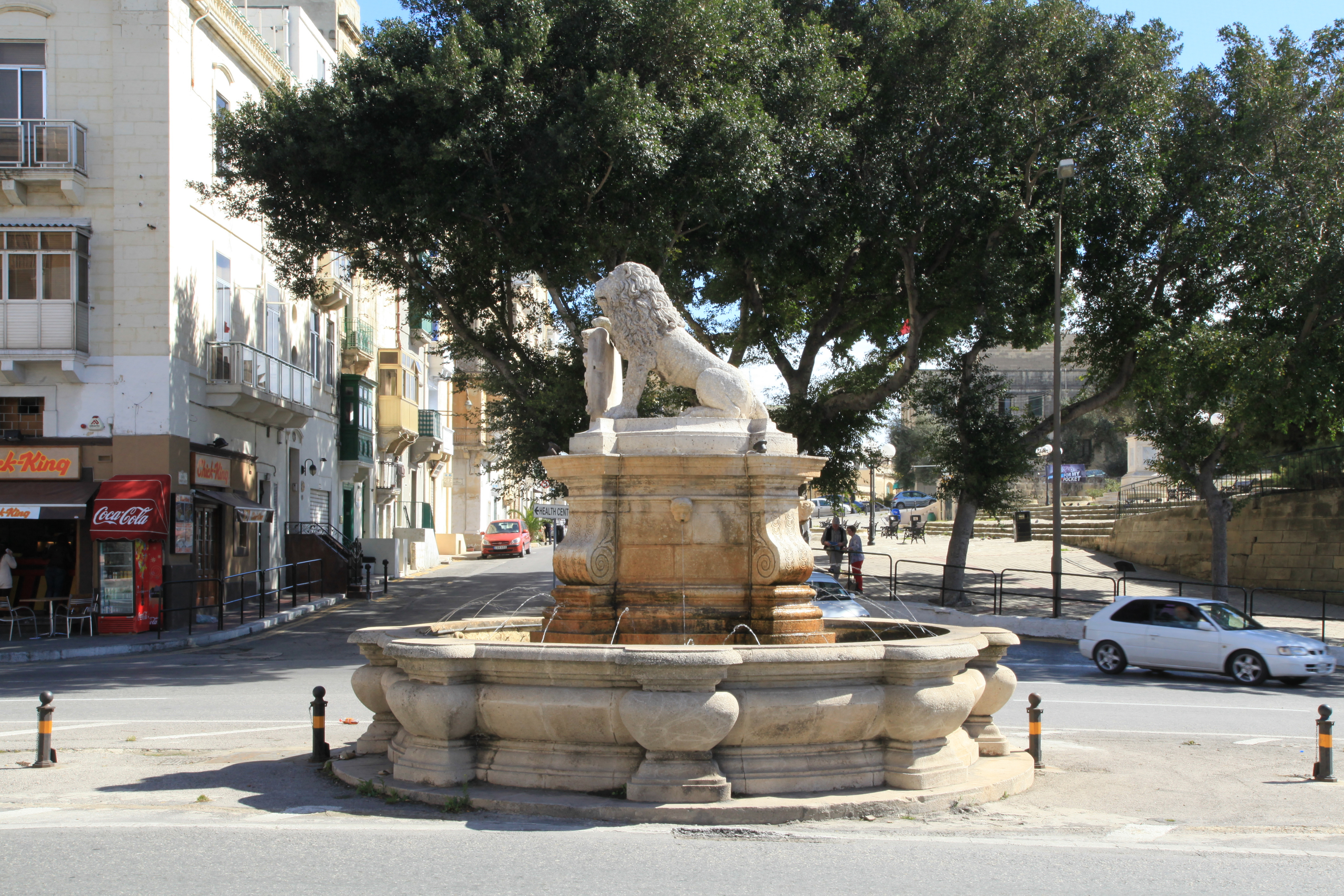 Lion Fountain at Triq Sant' Anna in Floriana, Malta